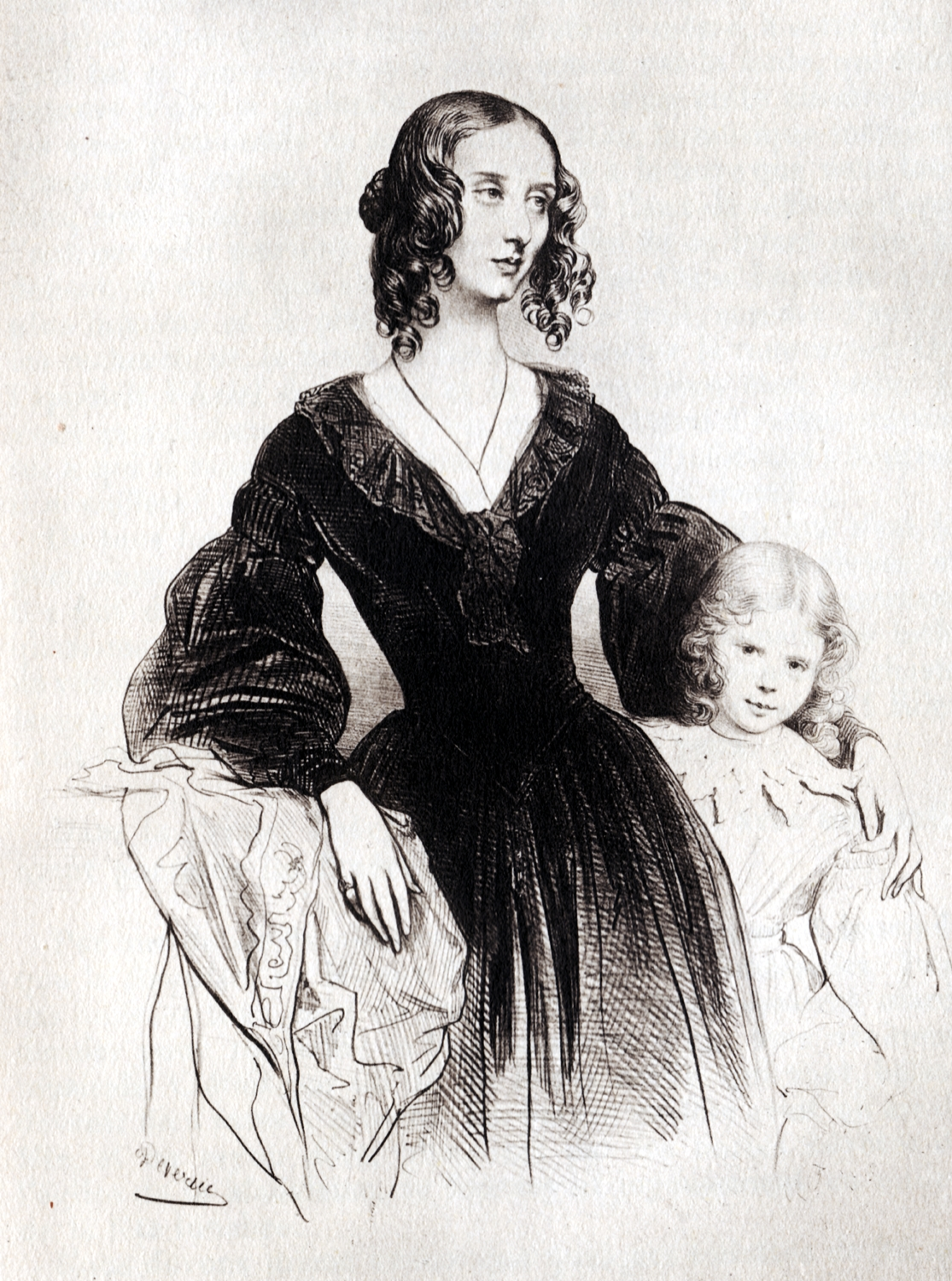 Portrait of Jane Stirling with young Fanny Elgin (later Lady Bruce) by Achille Devéria, lithography, 18 x 10,5 cm